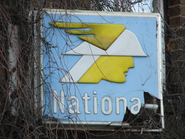 National Benzole sign on the side of Latimer House (669759), Friskney, Lincolnshire